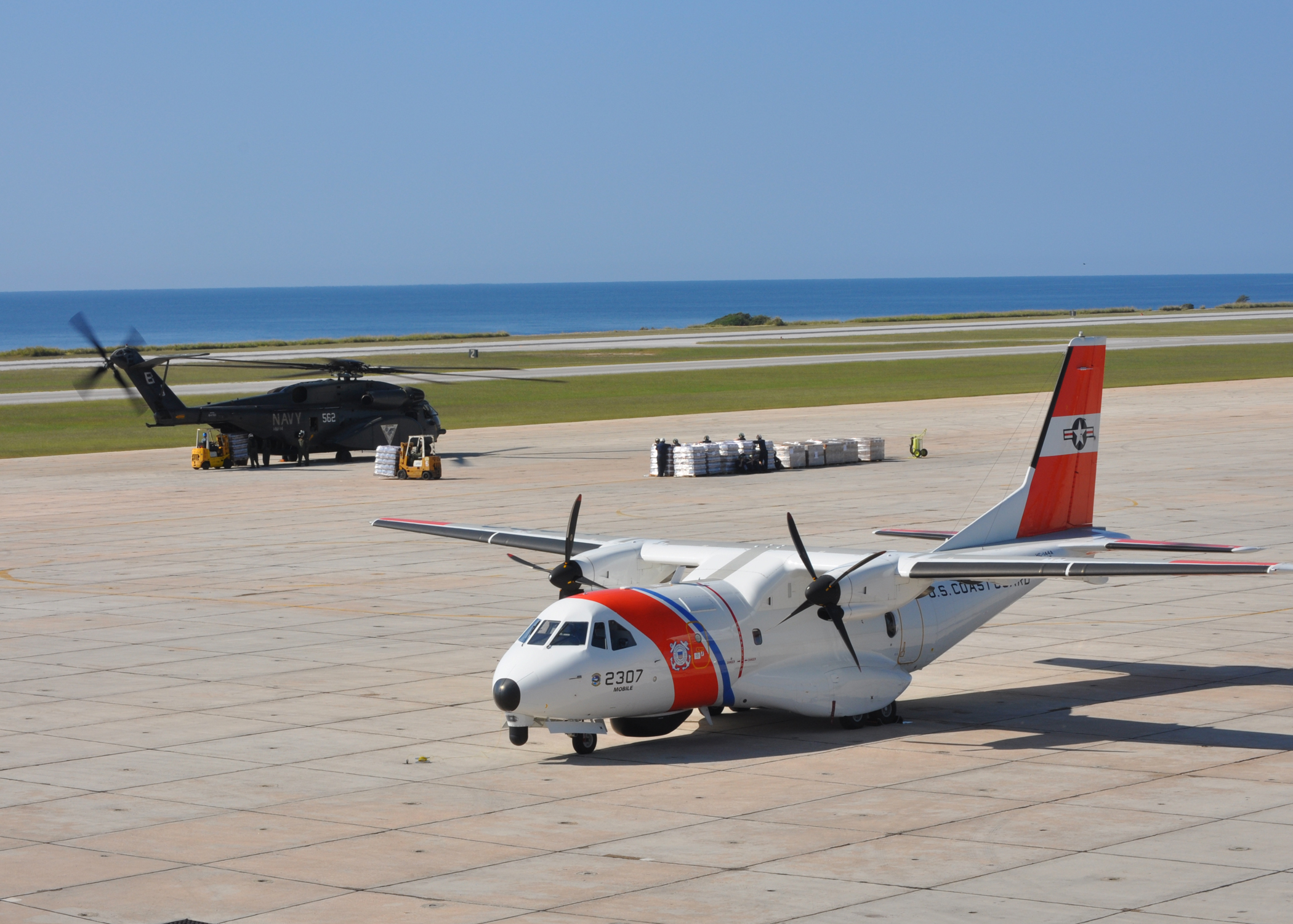 A U.S. Coast Guard EADS HC-144A Ocean Sentry (s/n 2307) from Coast Guard Air Station Mobile, Alabama (USA), at the U.S. Naval Air Station Guantanamo Bay (Cuba), on 18 January 2010. In the background is a U.S. Navy Sikorsky MH-53E Super Stallion from mine countermeasures squadron HM-14 Vanguards loading disaster relief supplies for Haiti in the wake of the earthquake on 12 January 2010.